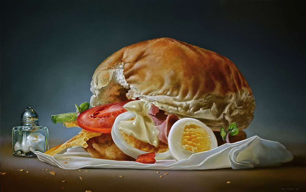 Tjalf Sparnaay: Sandwich Ham-Egg, oil on canvas, 95x150 cm